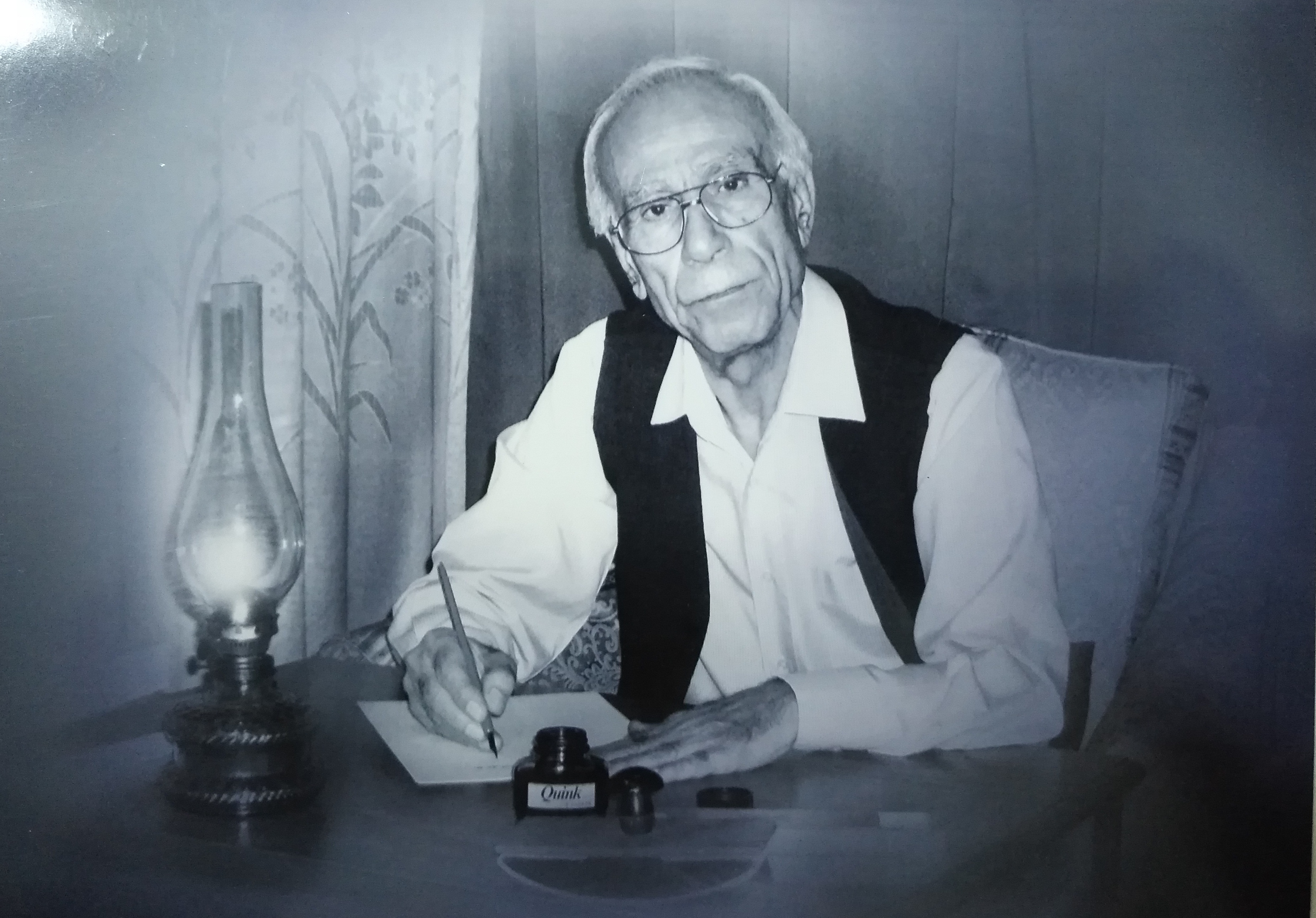 Mounis s Moussa